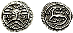 Anglo-Saxons, Secondary Sceattas. Jutland. Circa 710-720 AD. AR Sceatta (0.76 g, 6h). Ribe mint. "Woden head" flanked by crosses Fantastic animal left. Metcalf Series X, 278; Barrett types A/g; North 116; SCBC 843. EF. Exceptional.